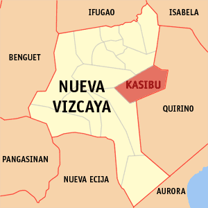 Map of Nueva Vizcaya showing the location of Kasibu